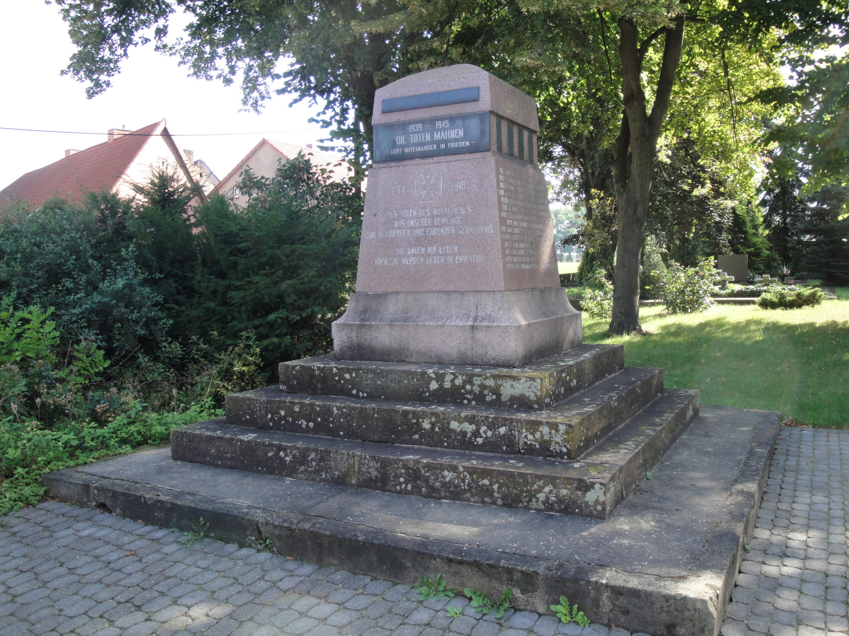 War memorial in Schackensleben, Germany